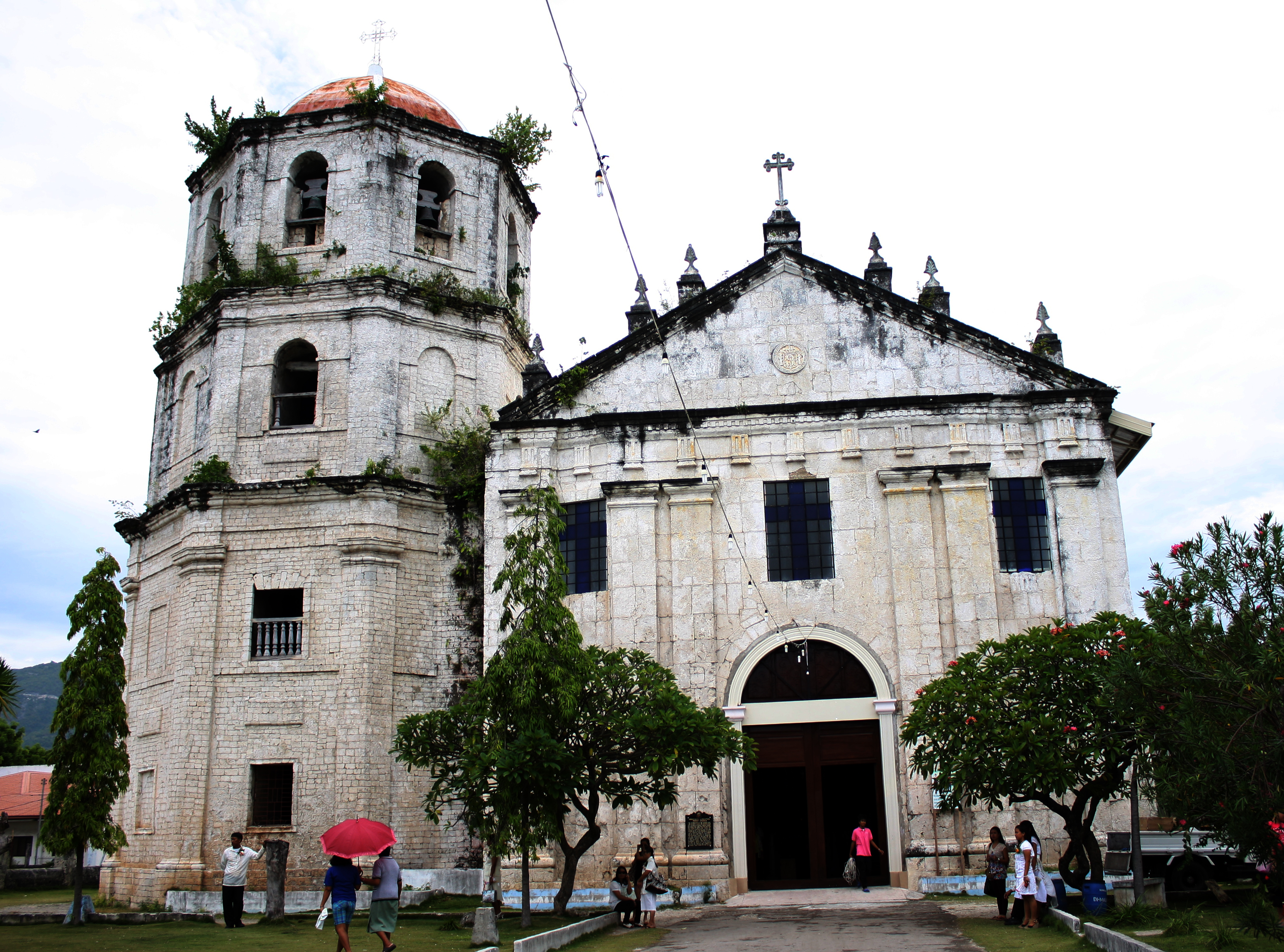 The Immaculate Conception Parish Church, which officially became an independent parish on January 8, 1847.